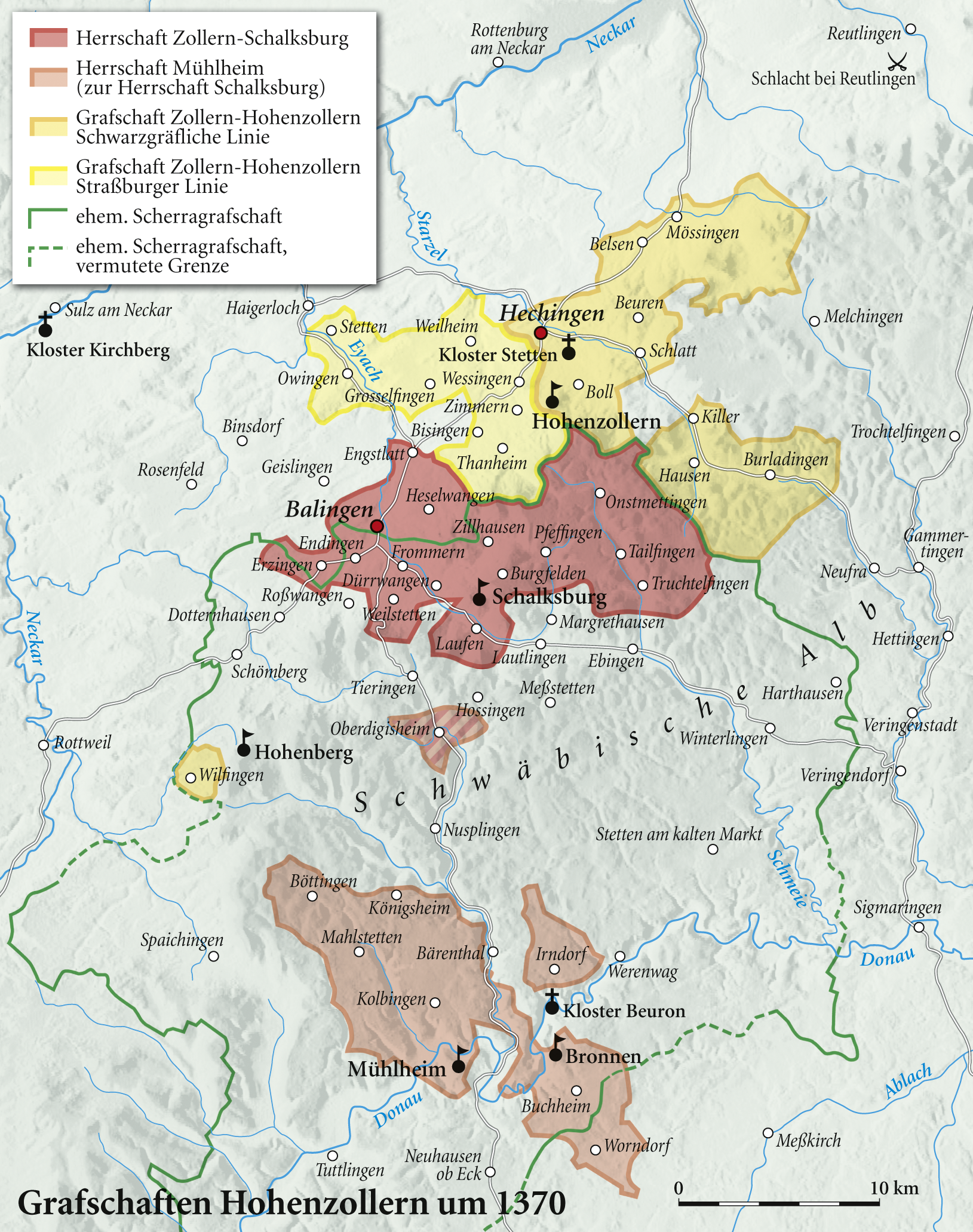 Counties Hohenzollern at 1370